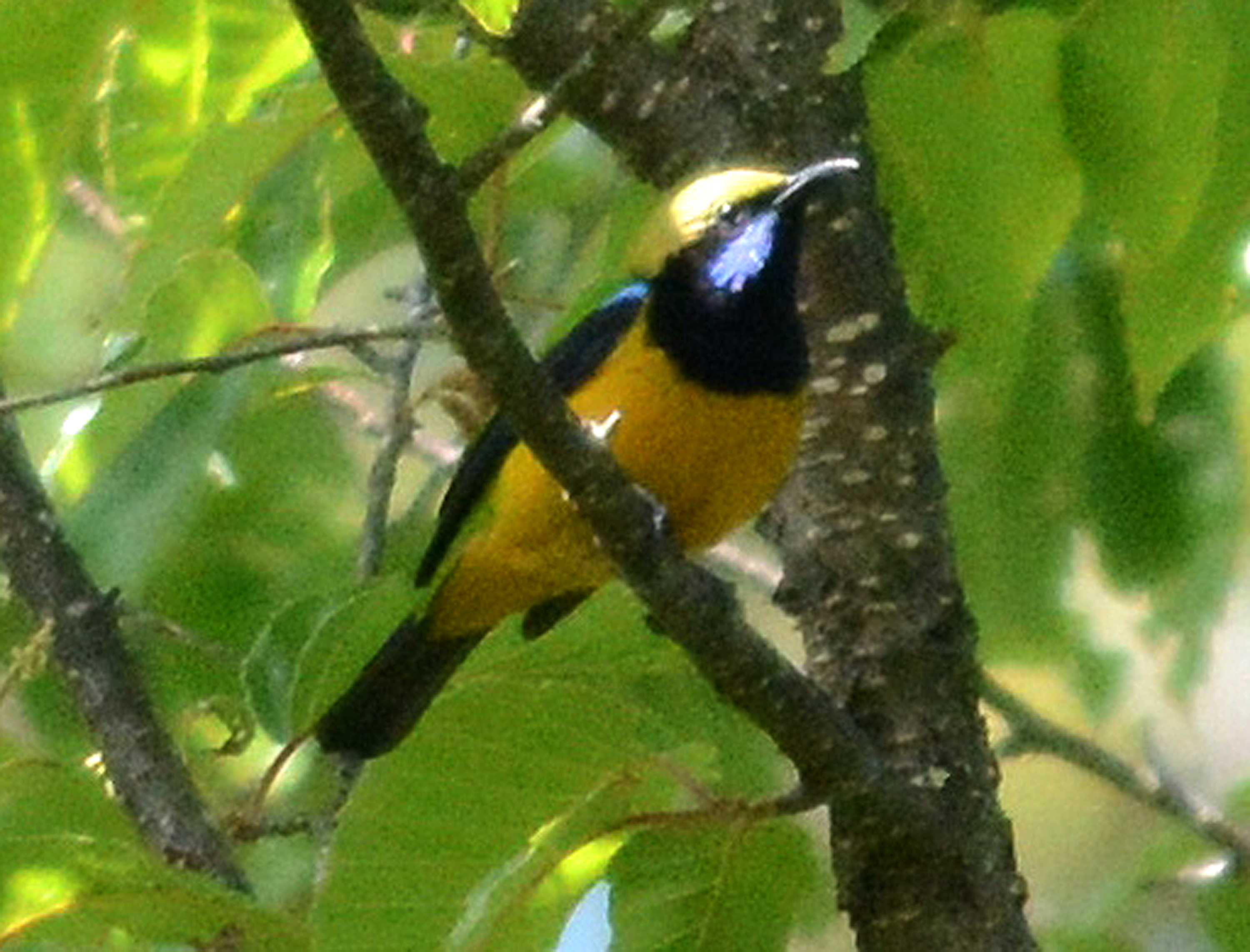 Orange-bellied Leafbird Chloropsis hardwickii. Clicked by Dr. Raju in Lengteng Wildlife Sanctuary, Mizoram, India